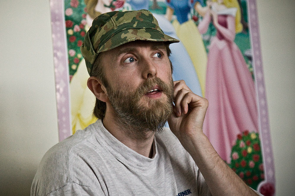 Varg Vikernes in prison